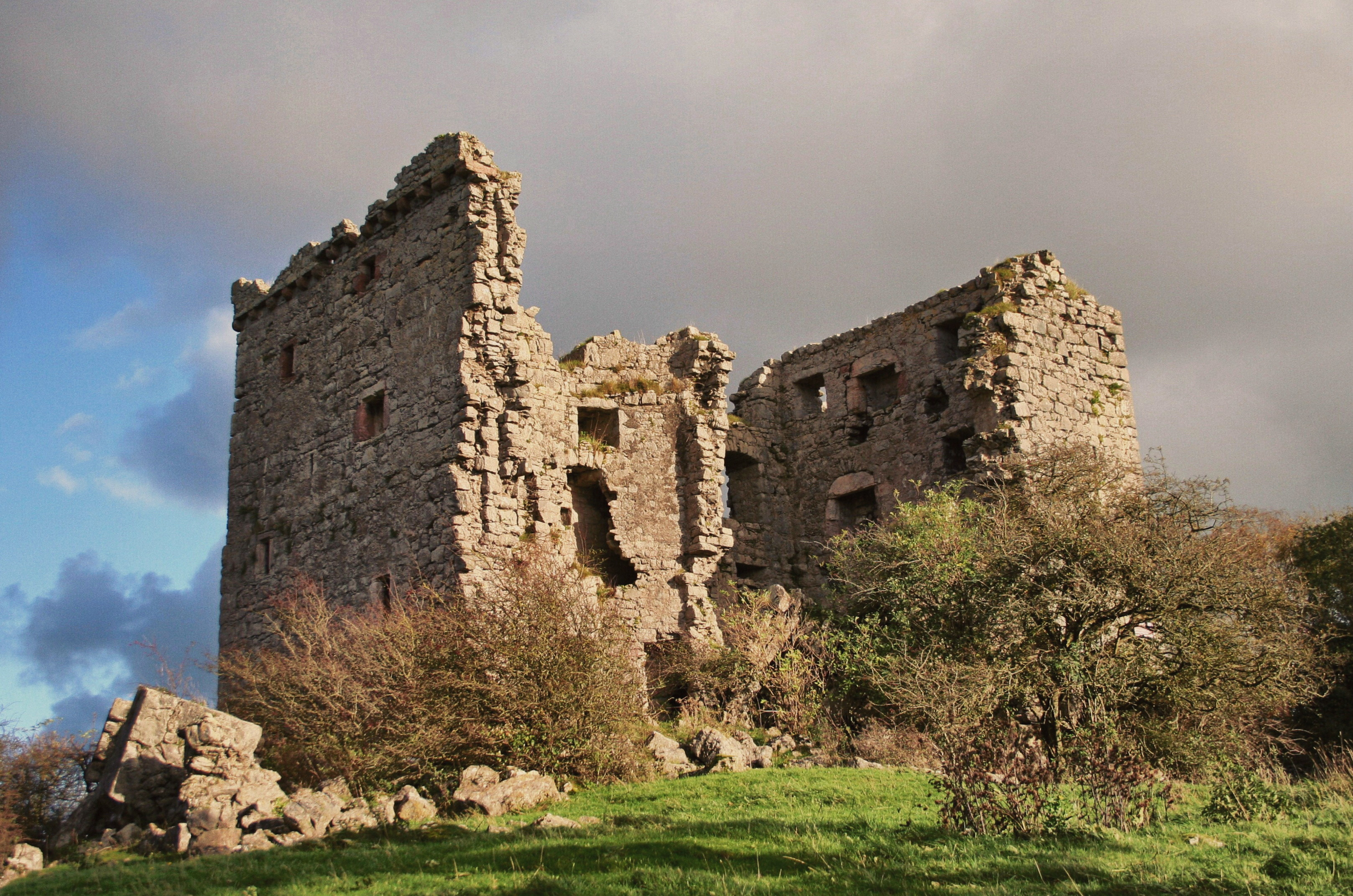 Fortified tower house, probably C15. Burnt 1602, repaired probably mid C17. One wall has completely collapsed and there are cracks in some lintels. No work has been undertaken but urgent works are required. A conservation plan has been produced and its recommendations are under consideration. View from the west.